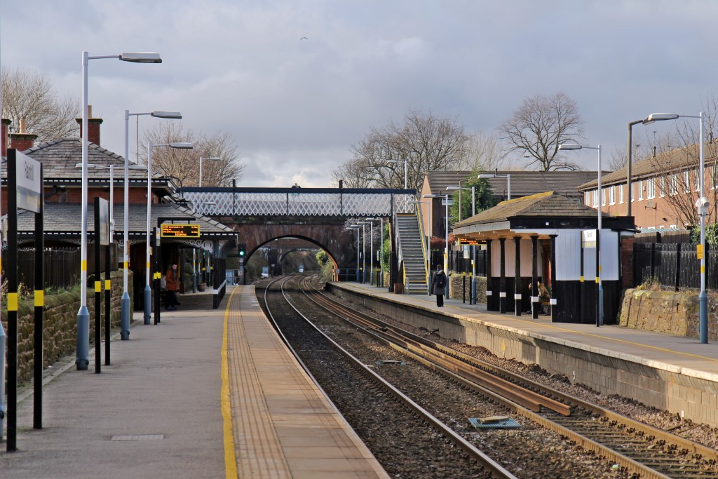 Along the platform, Rainhill railway station